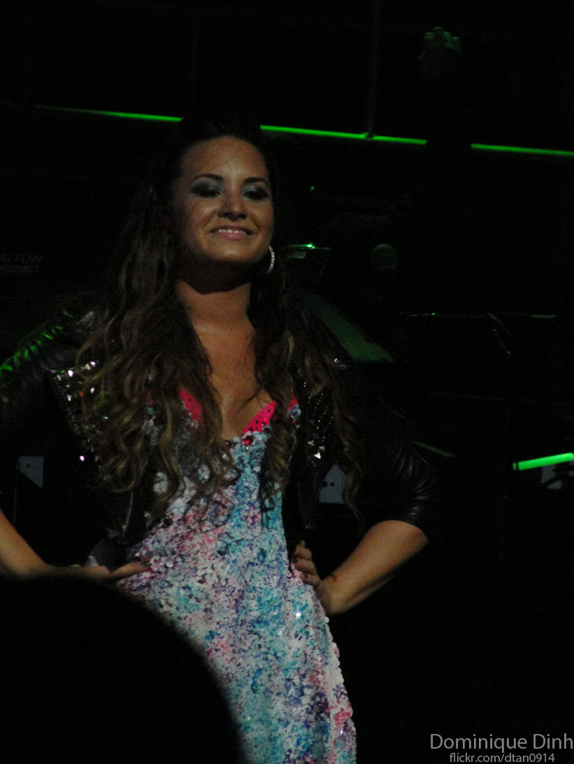 Demi Lovato performing "La La Land" at Club Nokia in Los Angeles